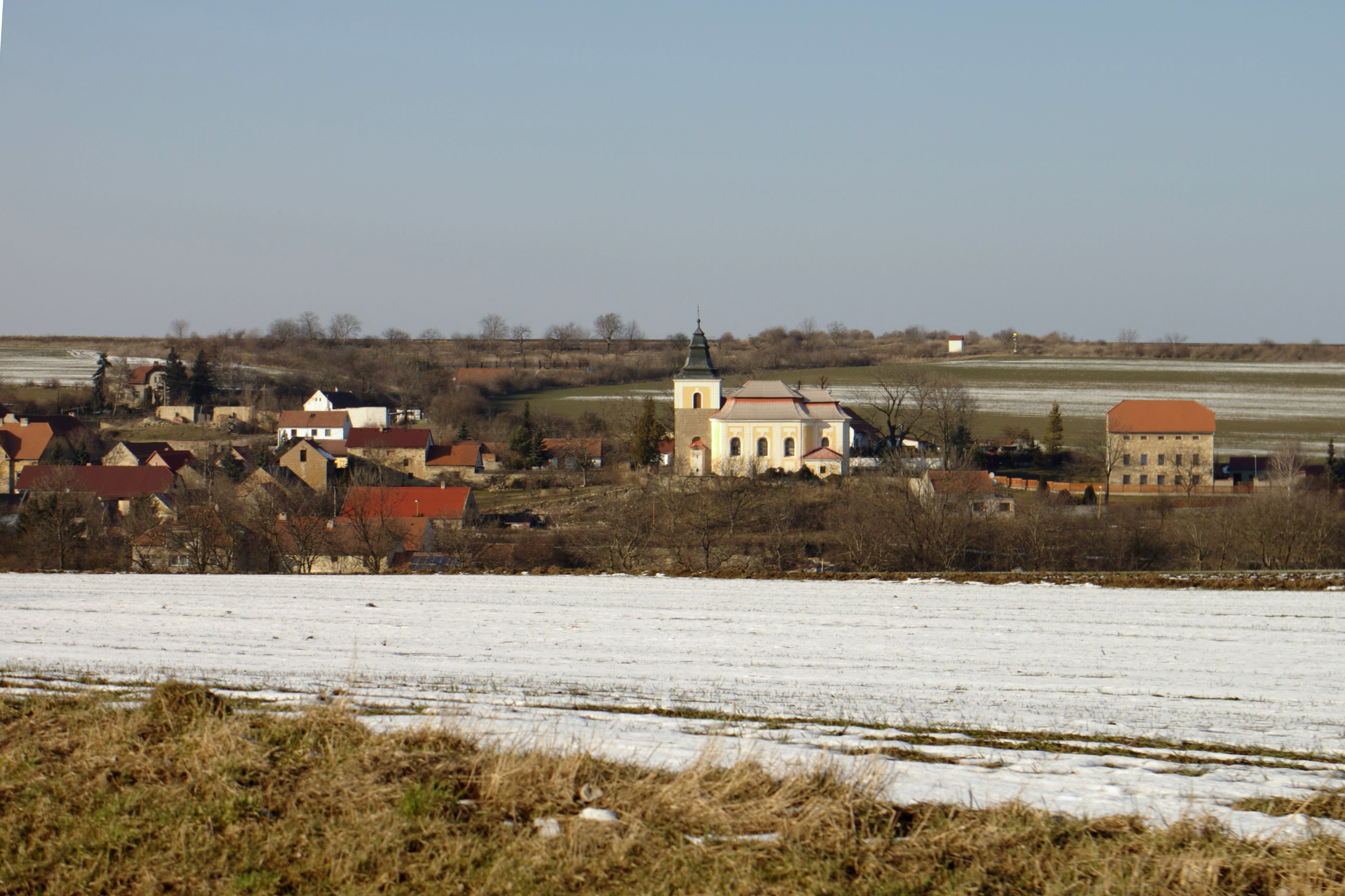 A view of the Telce church from the road from Klobuky, Central Bohemian Region, CZ